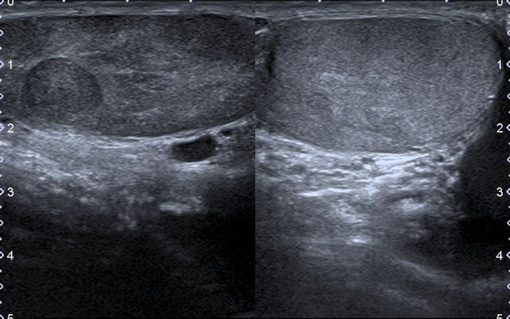 Left testicular seminoma (at left), with right testicle (at right), ultrasound image